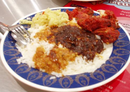 Malaysian food Nasi Kandar